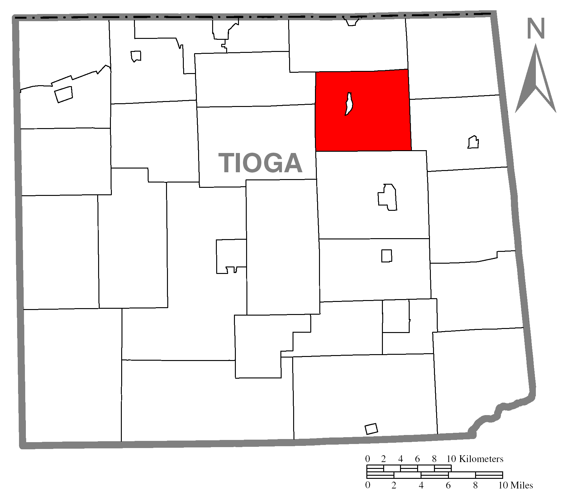 A map of Tioga County showing Tioga Township, Pennsylvania (alternate) highlighted on the map.